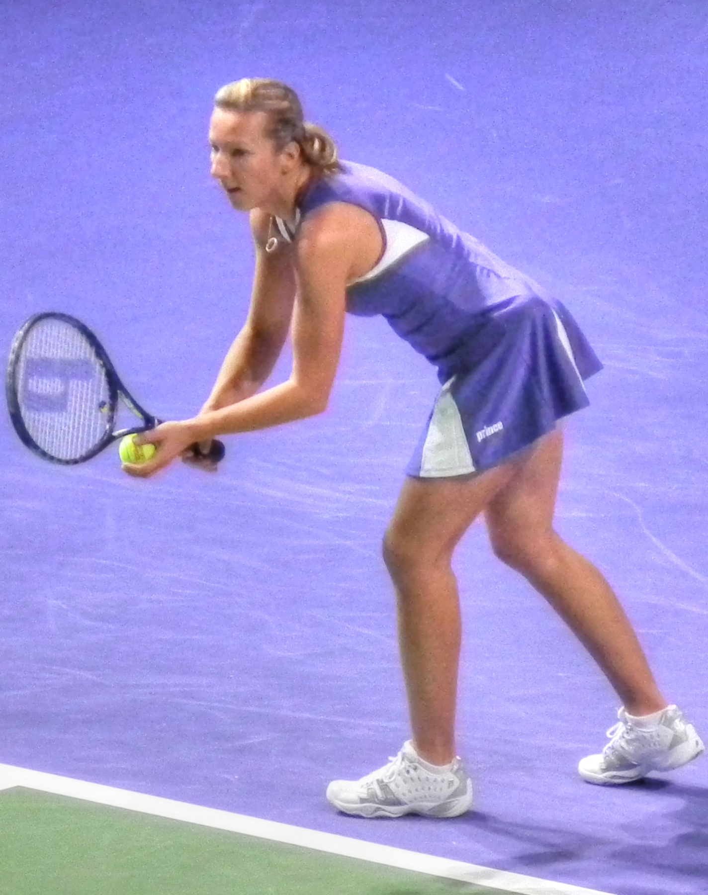 Květa Peschke at WTA Istanbul 2011